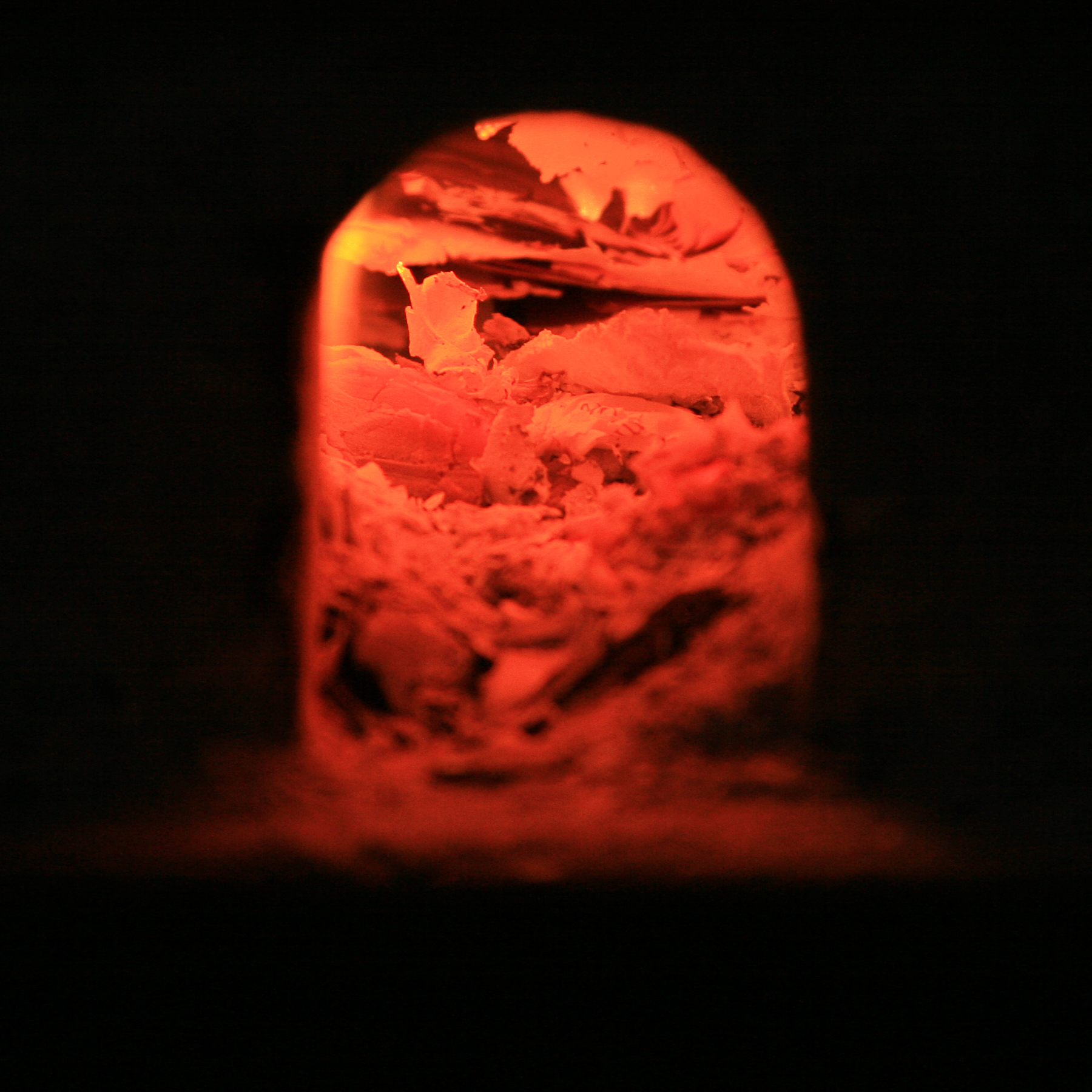 Glowing coals and ash seen through a draft hole in an antique Copper Clad wood-burning cook stove.